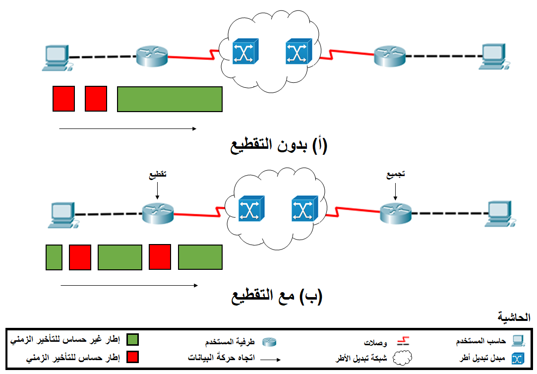 Link Fragmentation and Interleaving (LFI) in a frame relay network.